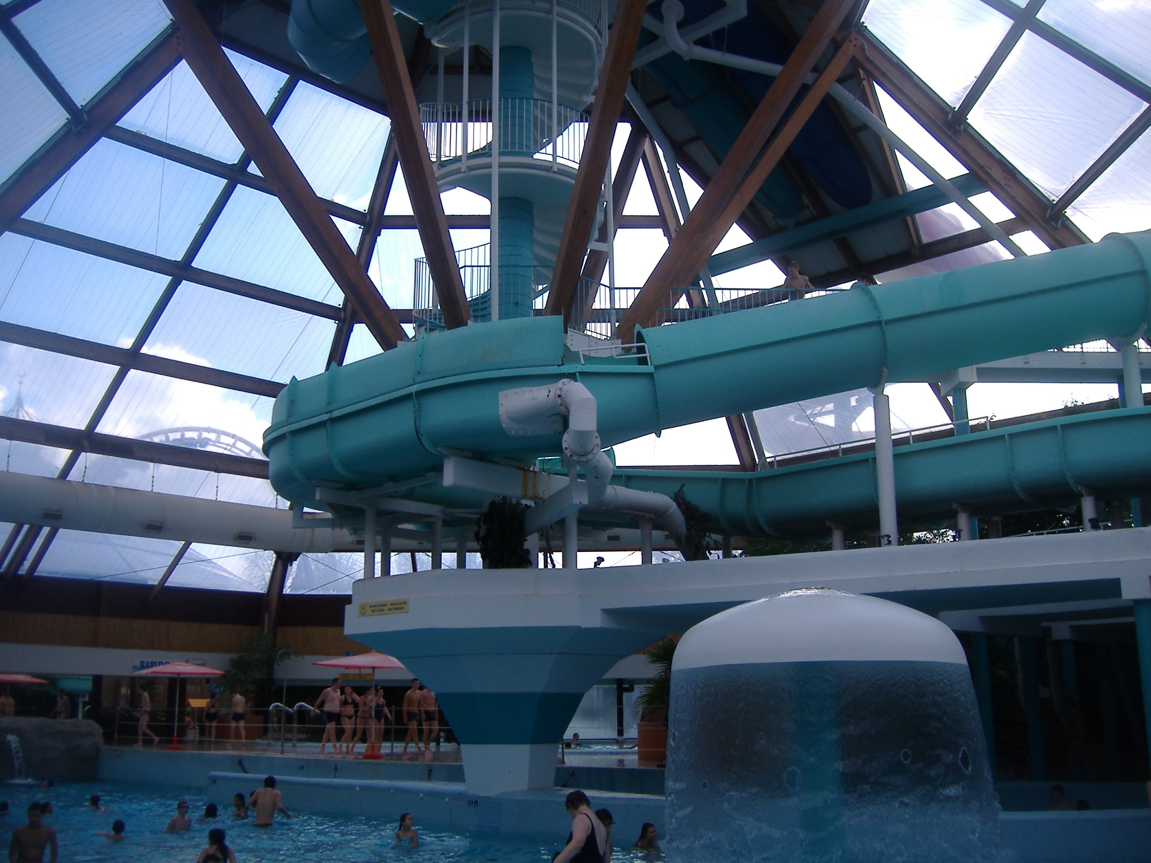 Depicted place: Aqualibi